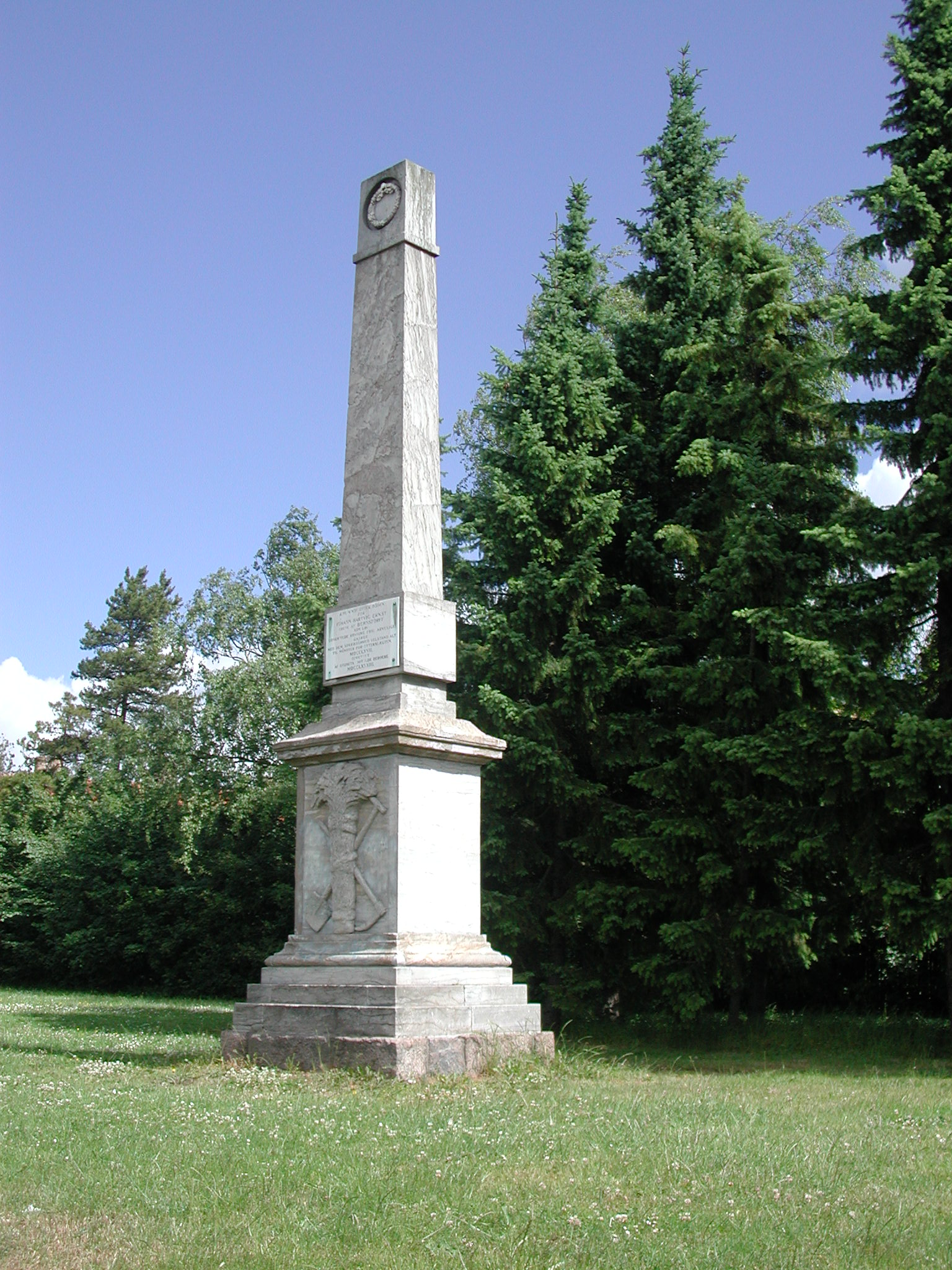 Memorial near Gentofte, Denmark, raised 1783 by local farmers in memory of Count J.H E. Bernstorff